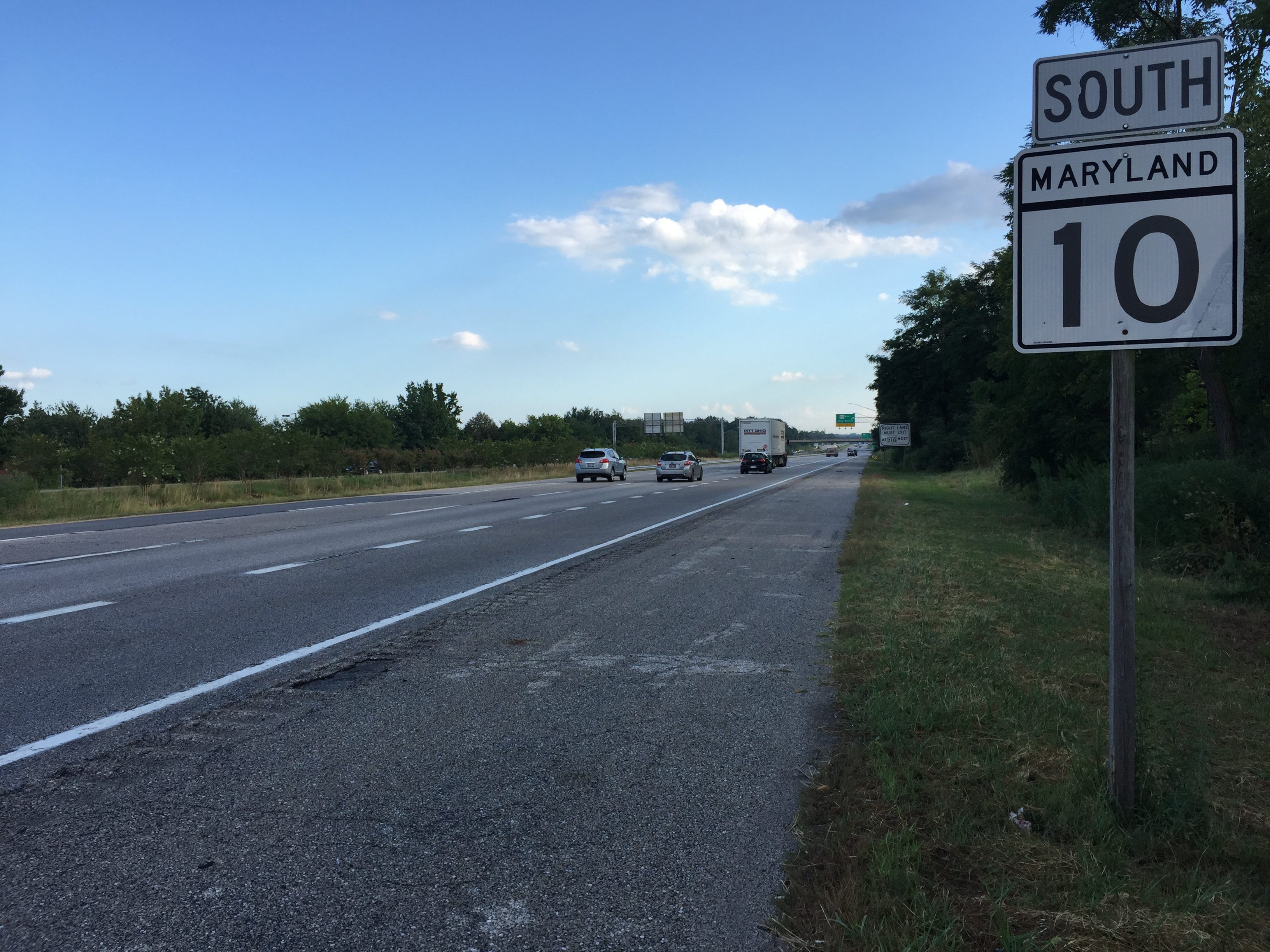 View south along Maryland State Route 10 (Arundel Expressway) just south of Interstate 695 (Baltimore Beltway) in Glen Burnie, Anne Arundel County, Maryland